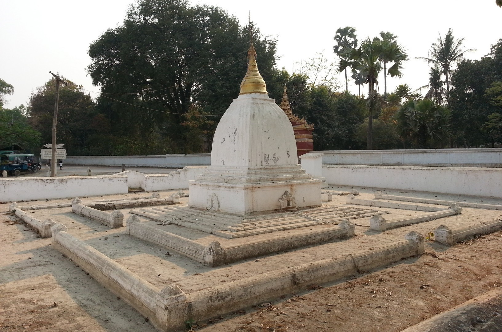 Mingun, Mandalay region